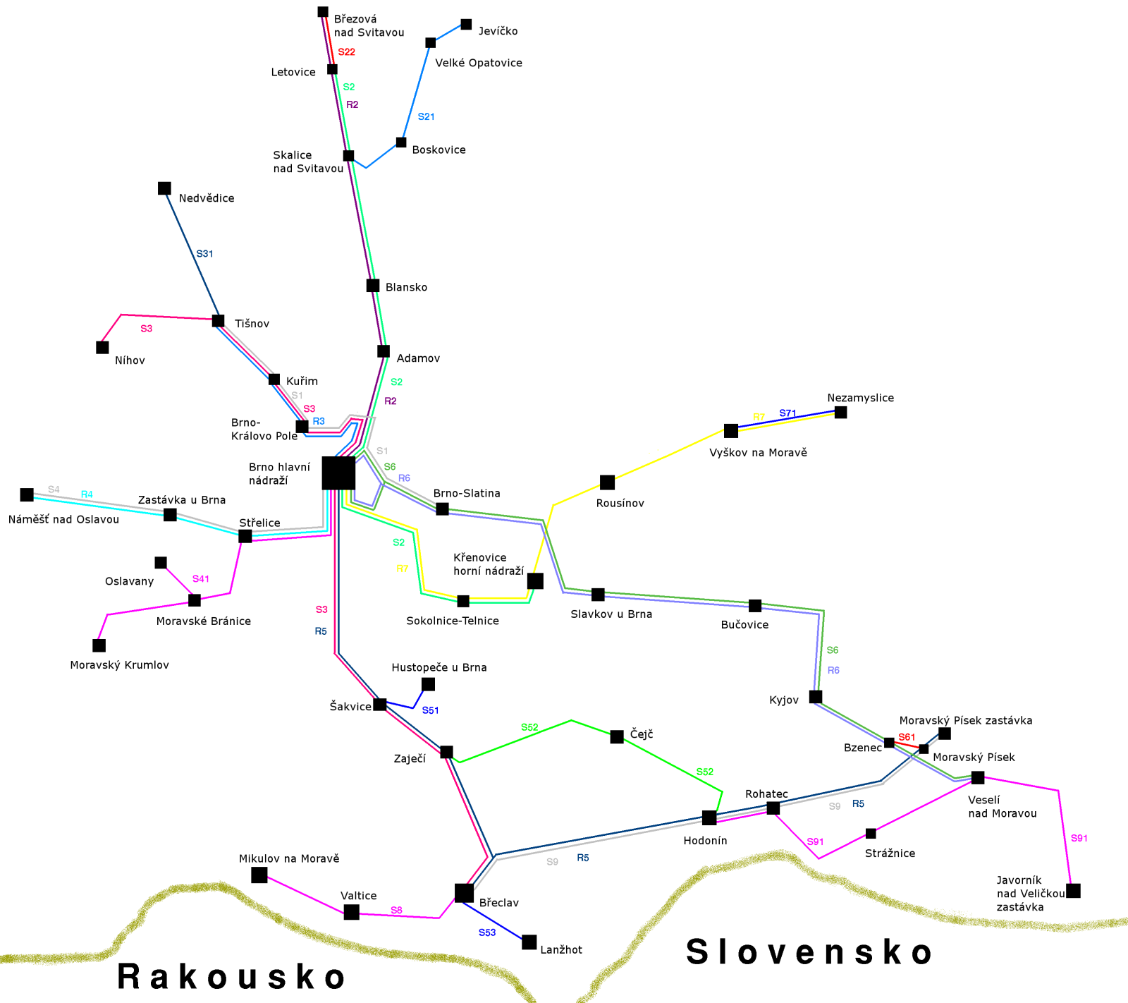 Network of rail transport in the IDS JMK, Czech Republic (situation on 1. 1. 2009)